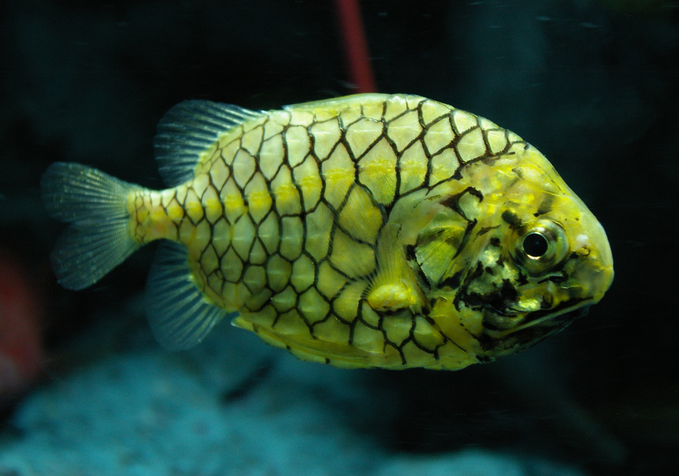 Pinecone fish Monocentris japonica at Noboribetsu Marine Park NIXE, Japan.